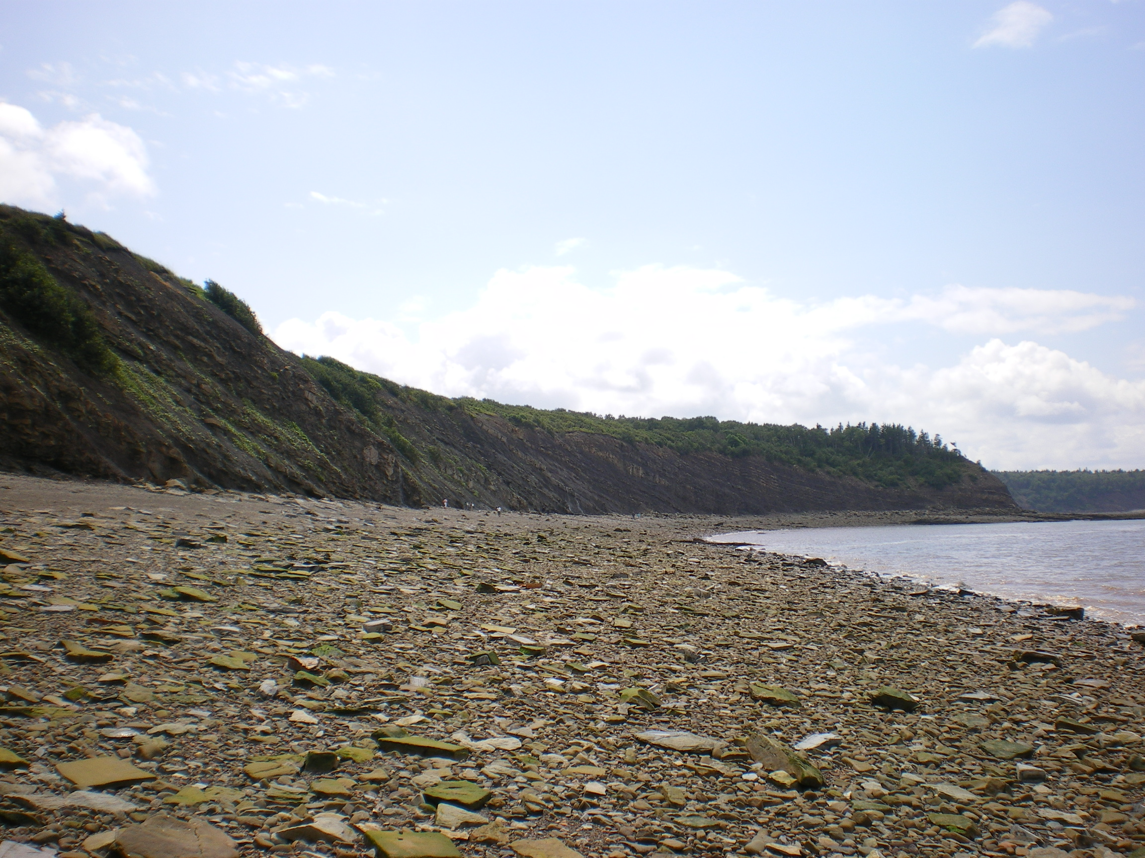 Joggins Fossil Cliffs, just below the Joggins Fossil Center, near Joggins, Nova Scotia. The rocks exposed in the cliff comprise continental sandstones and shales (and subordinate coal and bituminous limestone) of the uppermost portion of the Joggins-Formation (in the foreground, left and center) and the lowermost portion of the overlying Springhill Mines Formation (right, in the midground, towards the headland), Cumberland-Group, Pennsylvanian of the Cumberland Basin.